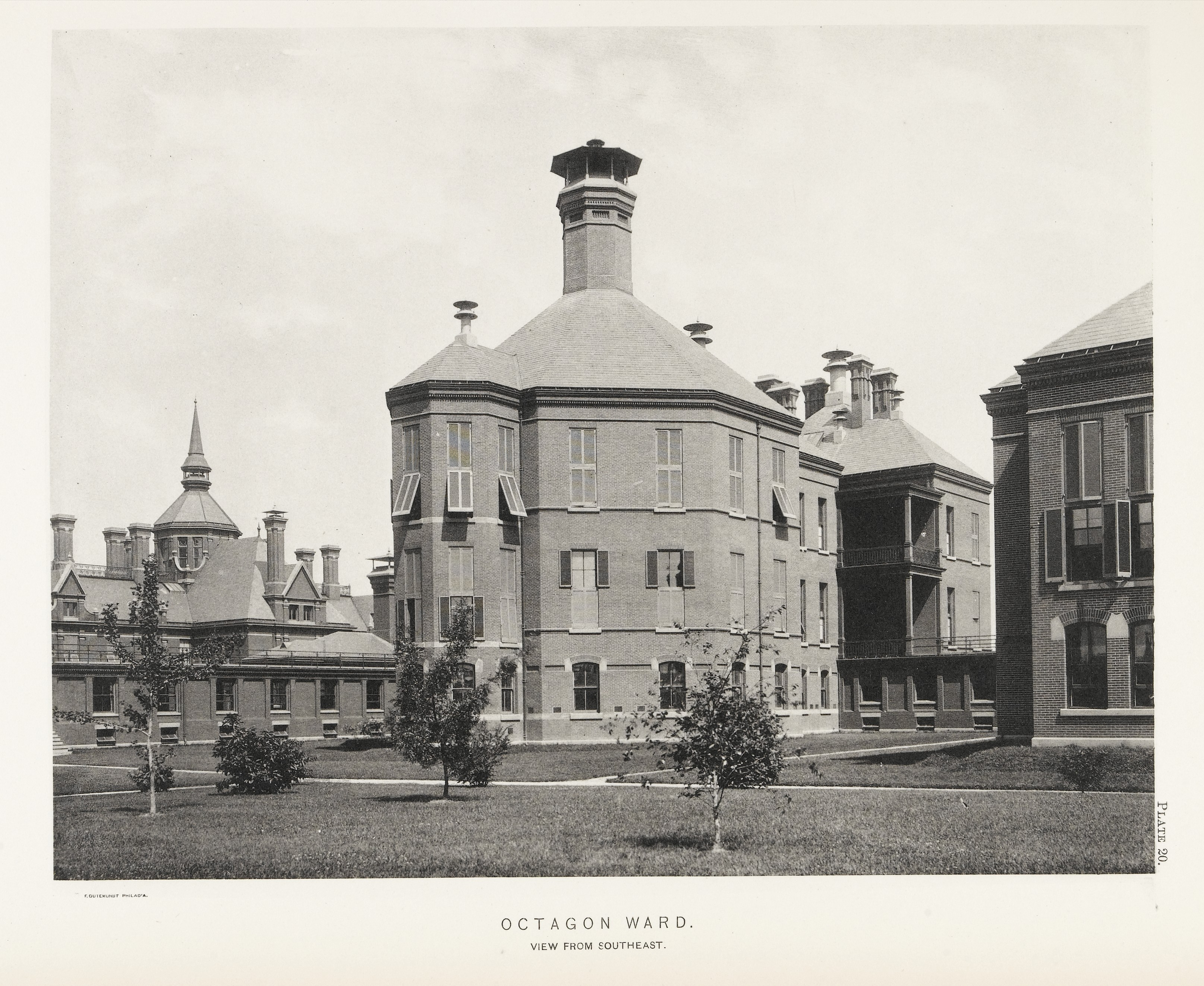 Octagon ward - Johns Hopkins Hospital - exterior Wellcome Images Keywords: John Shaw Billings